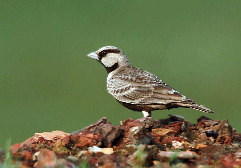 Ashy-crowned Sparrow Lark Eremopterix grisea at Narendrapur near Kolkata, West Bengal, India.